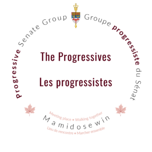 Logo for the Progressive Senators Group